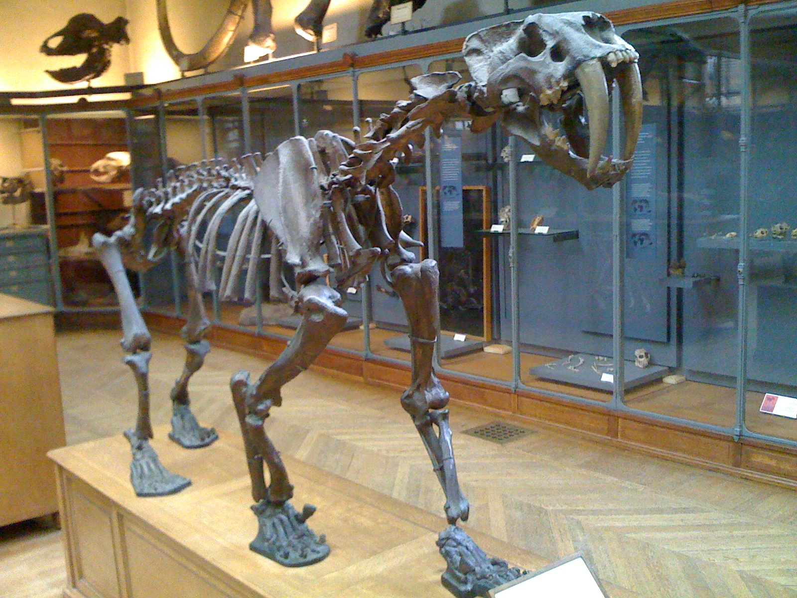 Fossil skeleton of Smilodon, displayed at the Muséum national d'Histoire Naturelle, Paris